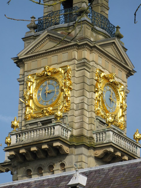 Gilded clock, Cliveden The clock tower also serves as a water tower.